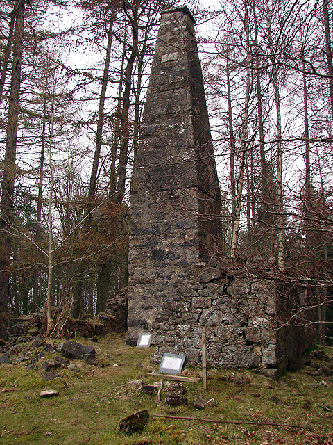 Balvenie Pillar Also known as Tom na Croiche (Hangman's Knoll), the pillar was erected in 1755 to commemorate 'the last public hanging', in 1630. In this case the definition of 'last' is unclear as the last public hanging in Scotland is well documented as being held in Glasgow in 1865.